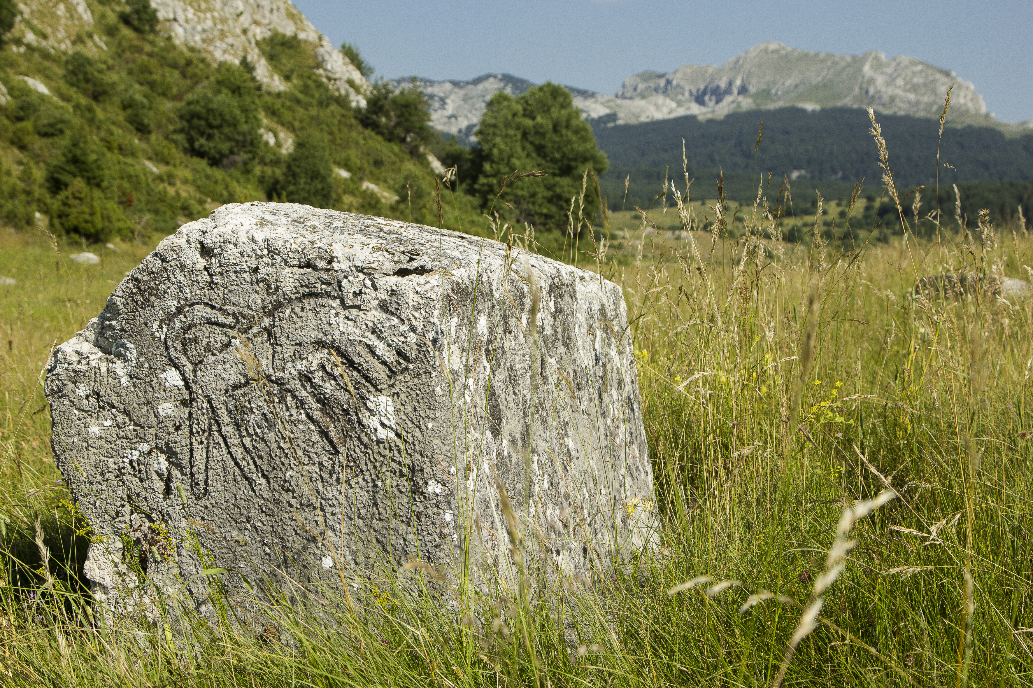 U prvom planu jedan od stećaka na Gvoznom polju a u pozadini Treskavica. This image was uploaded as part of Trace of Soul 2018.